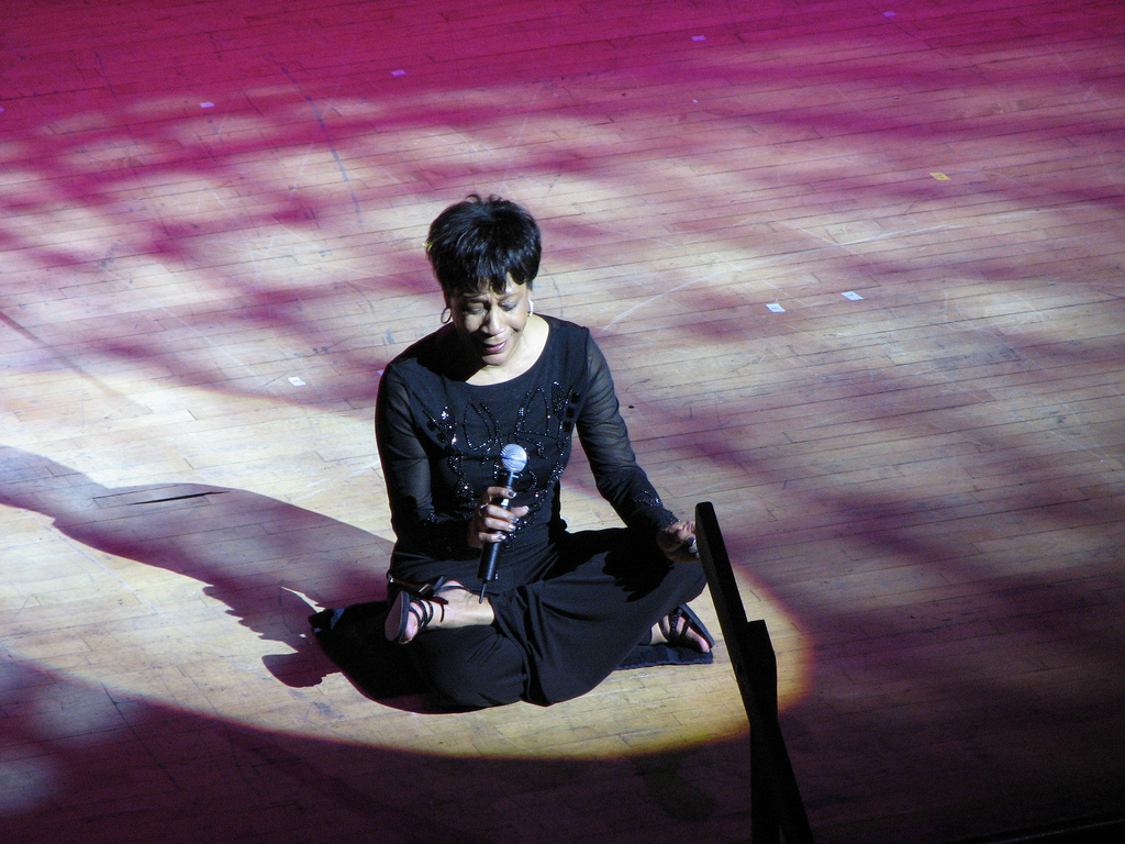 Photo by Kasra Ganjavi